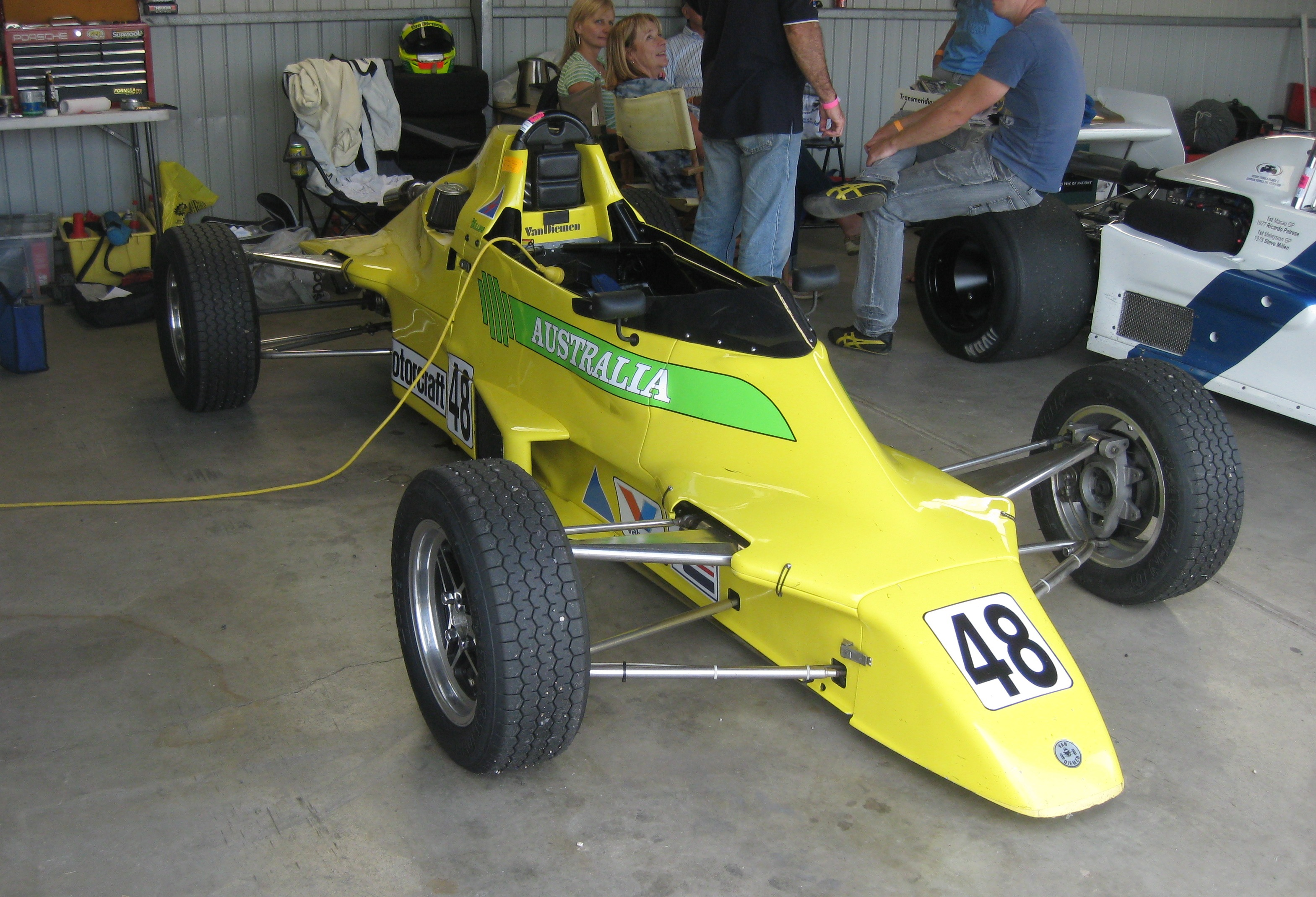 Van Diemen RF86 of Pat Mullins. the car was competing in the Historic Formula Ford category at Mallala Motor Sport Park on 7/4/2012